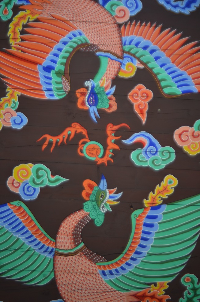 Hyehwamun Gate, also known as East Small Gate or Dongsomun, Seoul, South Korea. Detail of wooden roof decoration inside gate. Photographed May 5, 2012.